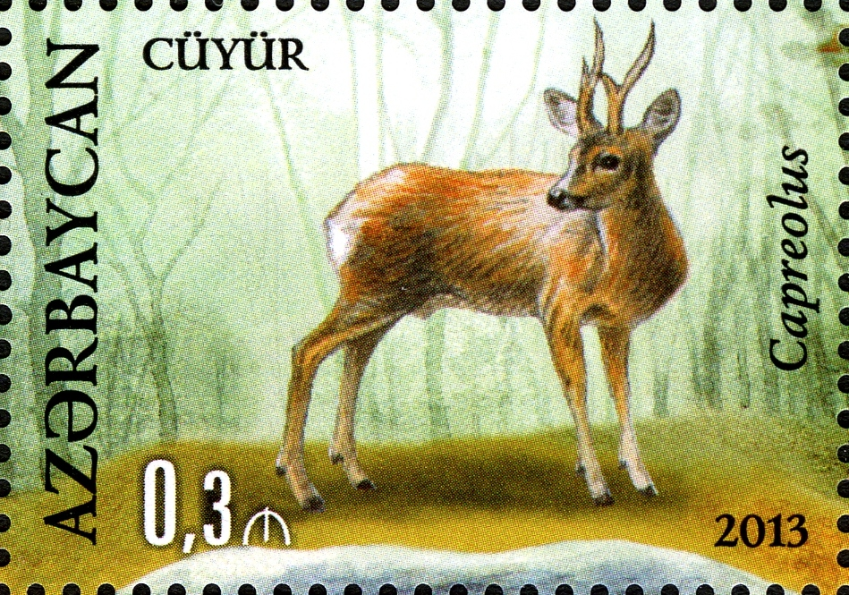 Hirkan National Park. N 1123 - 30 qapik. Roe deer (Capreolus)